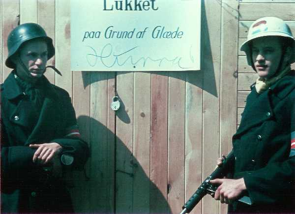 Two Danish resistance fighters are guarding a shop that is "closed due to happiness" after the liberation of Denmark by the British army on May 5 1945.